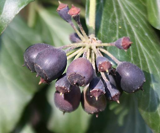 Ivy (Hedera helix) fruits, April 2009, Czech republic